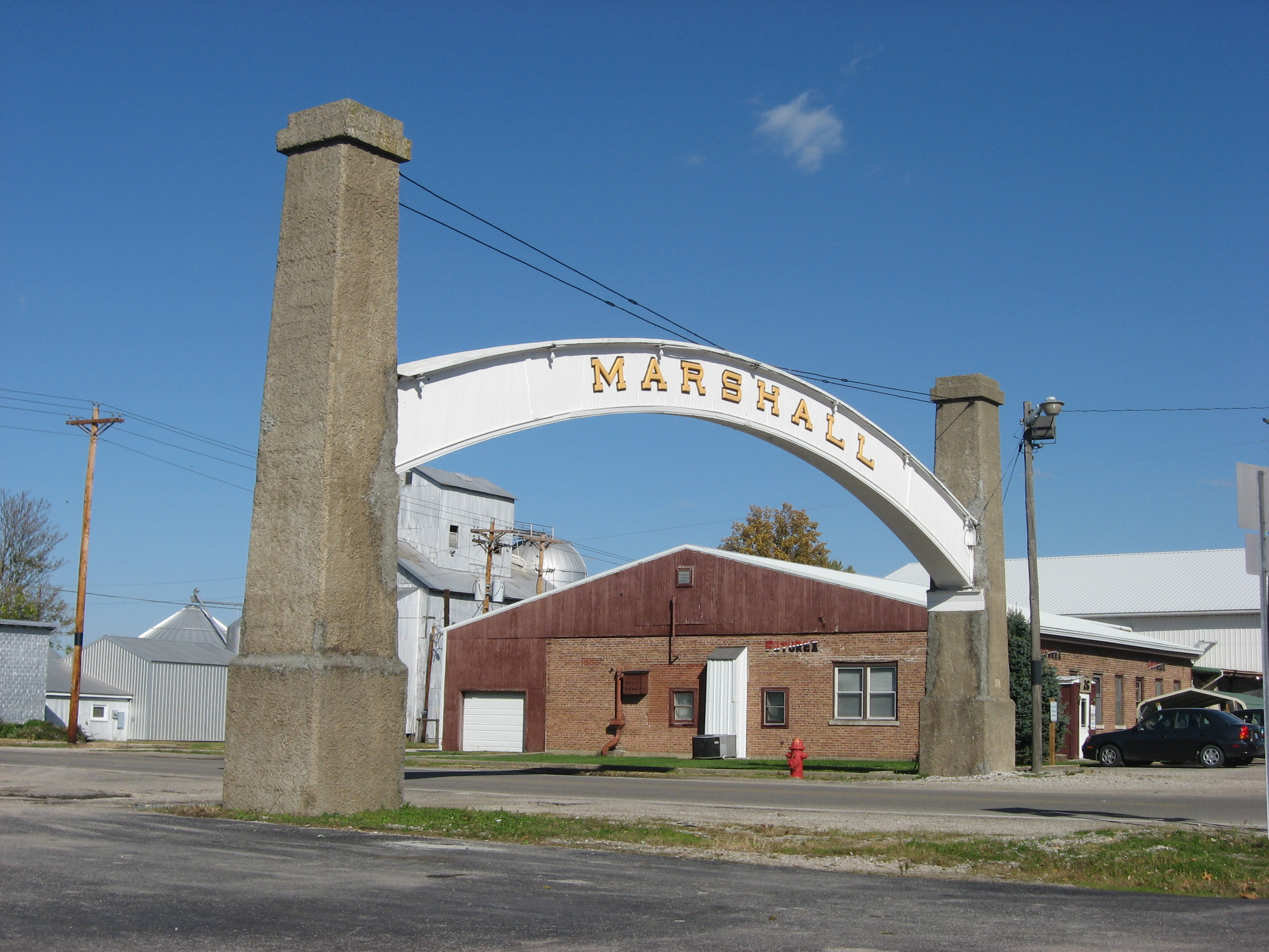 Southern side of the Arch in the Town of Marshall, which spans Main Street (State Road 236) in downtown Marshall, Indiana, United States. Built in 1921, it is listed on the National Register of Historic Places.